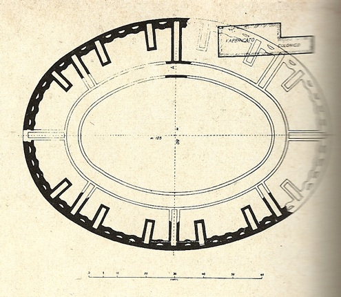 Being a faithful relief, it falls below thershold of originality.